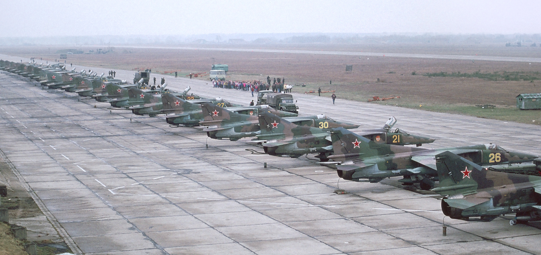 Impressive. About half of the 38 MiGs of the 19th Guards Fighter-bomber Aviation Regiment on the flightline of Lärz. The family of the pilots have gathered to wave them goodbye. It must have been quite an operation to get all aircraft ready for their flight to Russia.